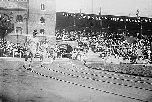 Olympic Games 1912, athletic race